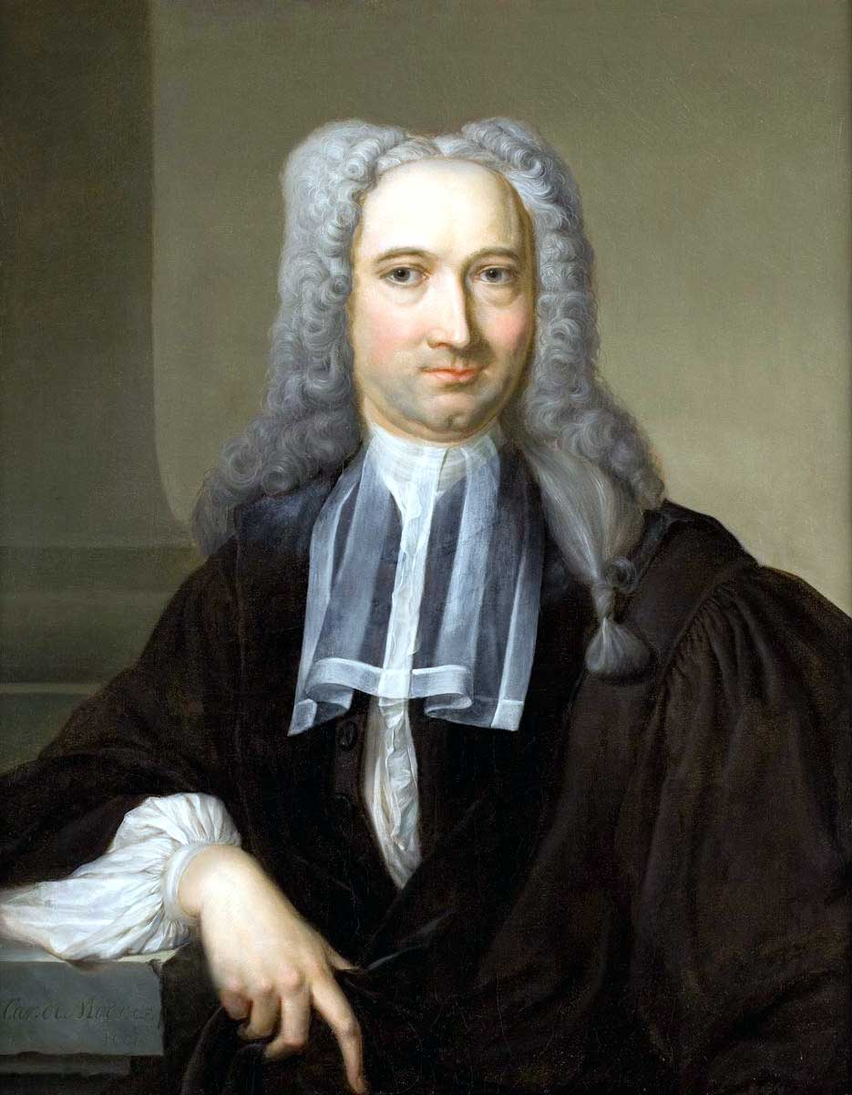 Gerlach Scheltinga (1708-1765) Dutch lawyer